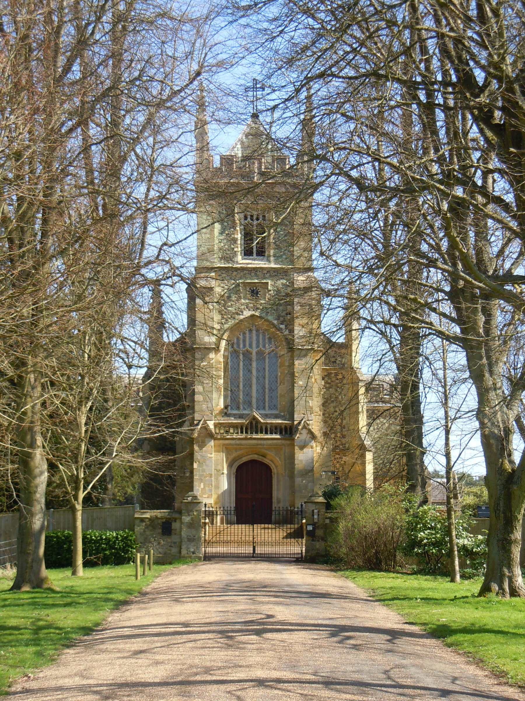 Former Catholic Apostolic Church, Albury Park, Albury, Borough of Guildford, Surrey, England. Designed in 1840 by William McIntosh Brooks for Henry Drummond of Albury Park.